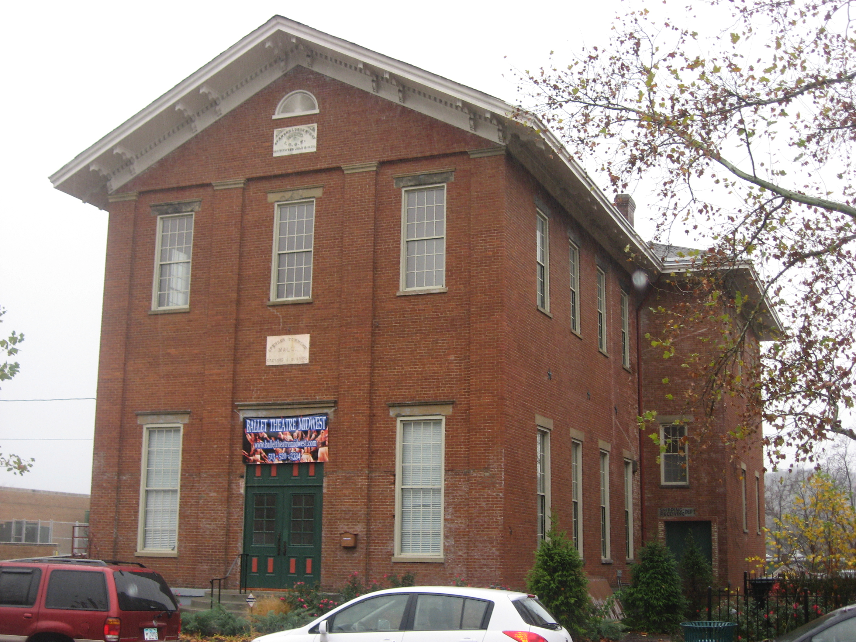 Front and western side of the former Spencer Township Hall, located at 3833 Eastern Avenue in the Columbia-Tusculum neighborhood of Cincinnati, Ohio, United States. Built in 1860, it is listed on the National Register of Historic Places.